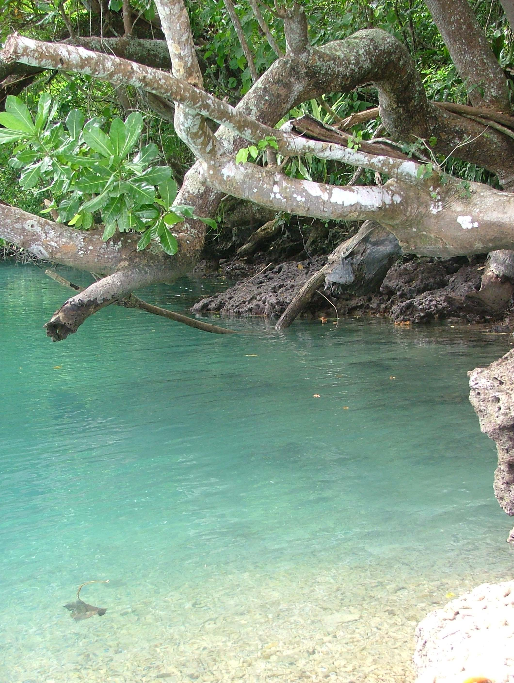 Photographer: Samantha Alice Morris